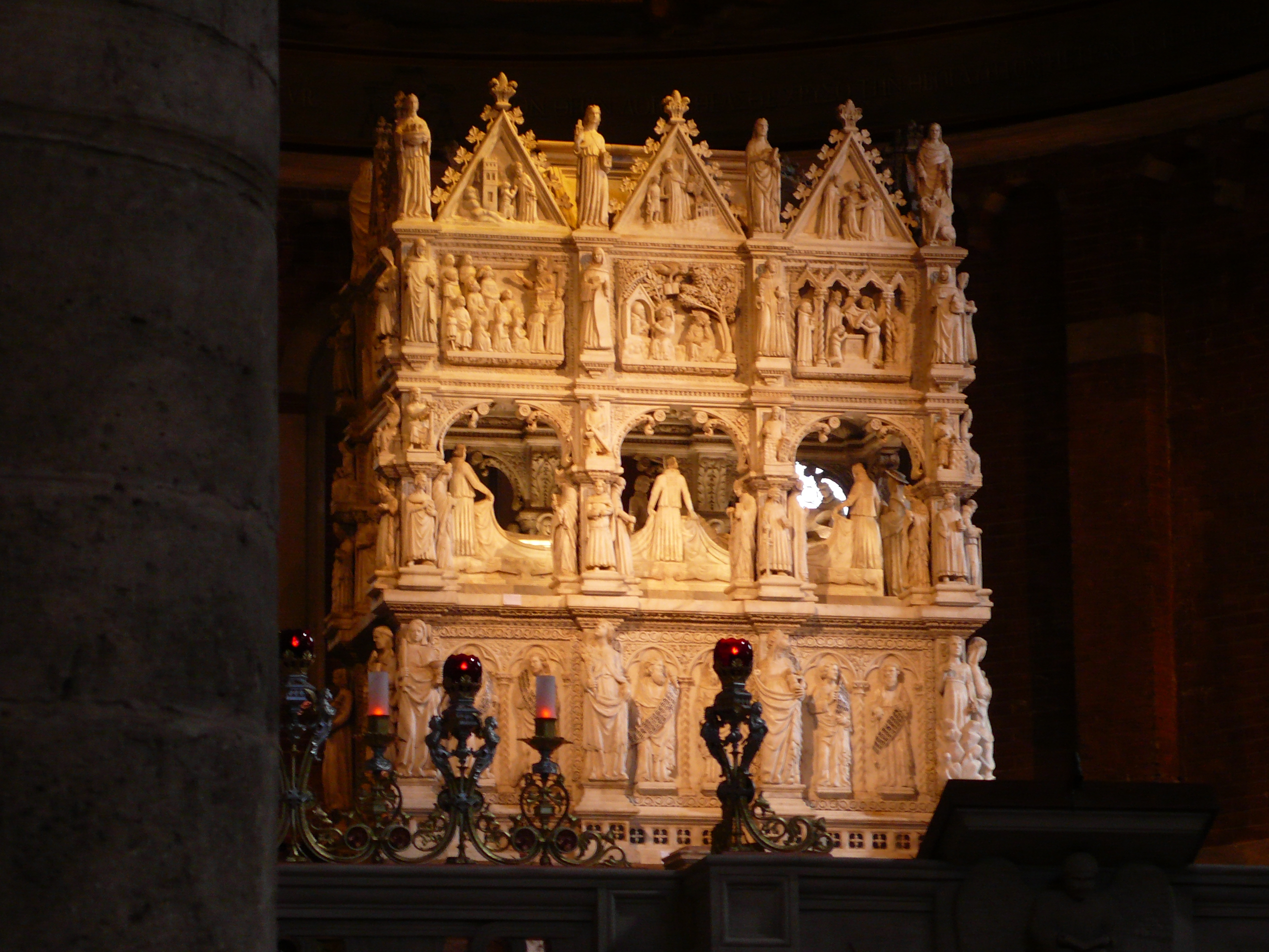 Grave of Saint Augustinus (1362) in the presbitery of the church of San Pietro in Ciel d'Oro in Pavia, Italy.